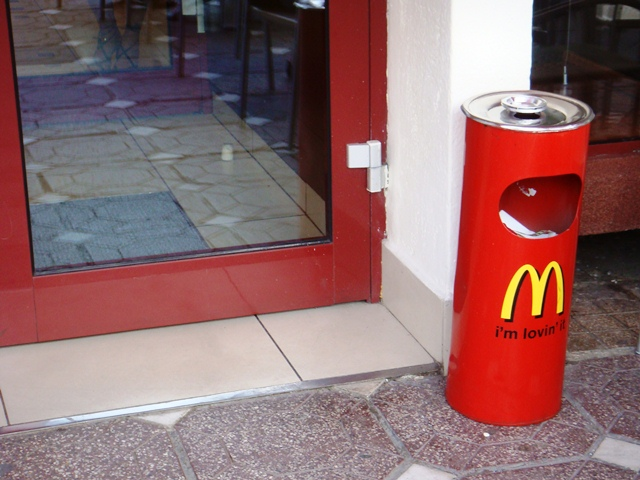 An ash tray placed at the entrance of McDonald's in Timisoara, Romania